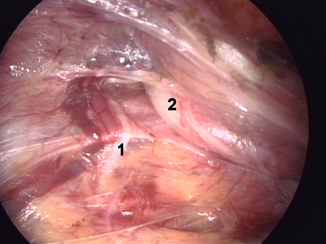 1. Genital ramus of genitofemoral nerve. 2. Preperitoneal lipom and spermatic cord. Intraoperative view by TEP Operation Template:Es/1= Rama genital del nervio genitofemoral. 2. lipoma preperitoneal y cordón espermatico